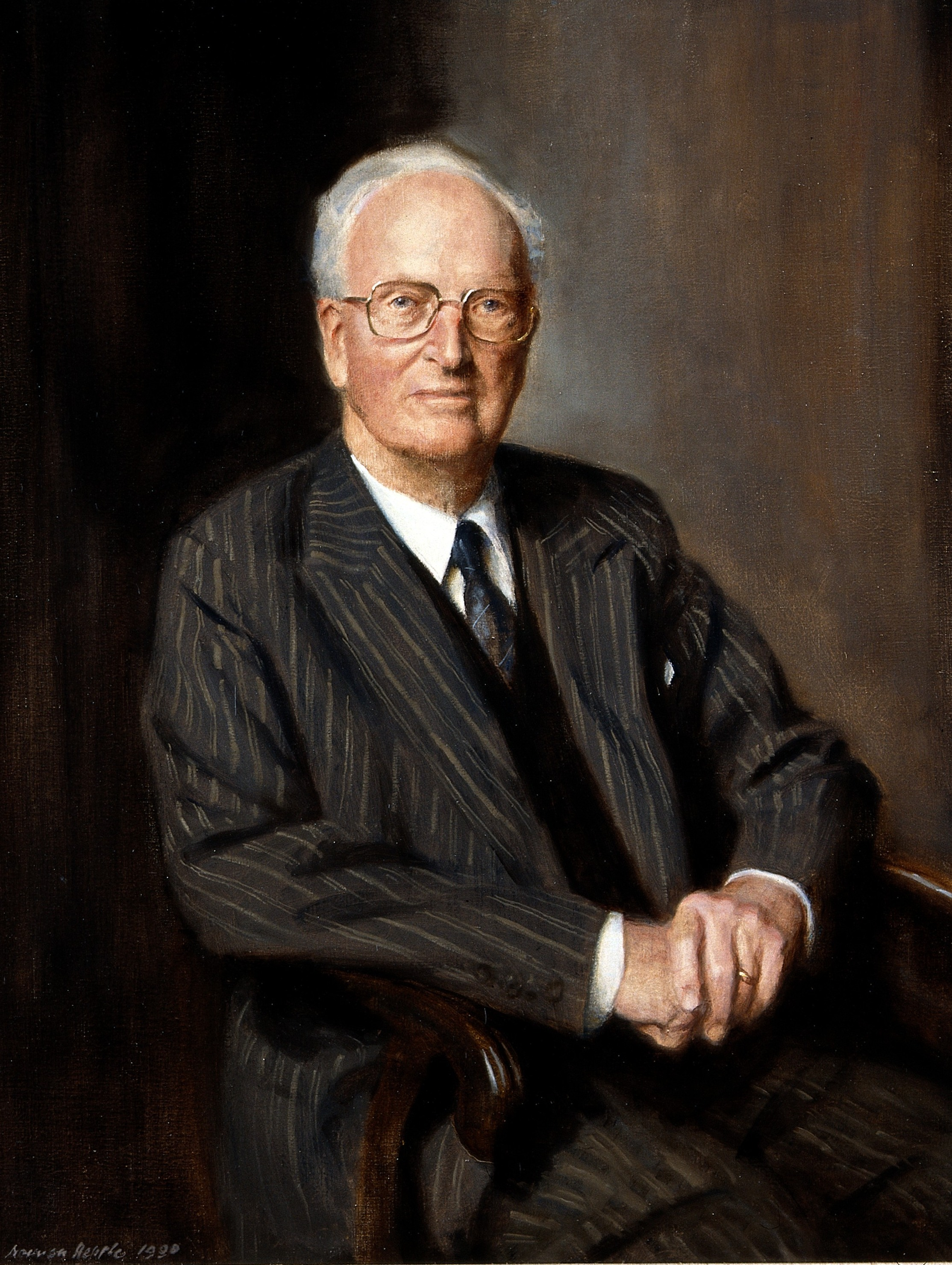 Oliver Franks, Baron Franks, canvas 91 x 70.7 cm